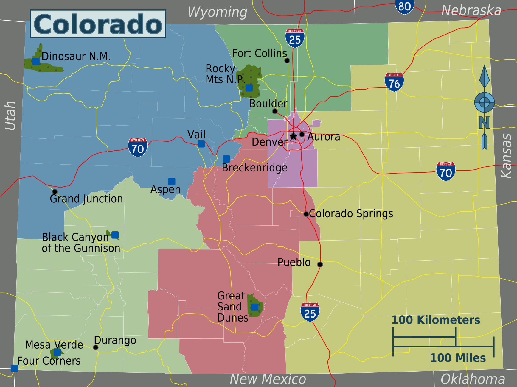 Colorado regions map